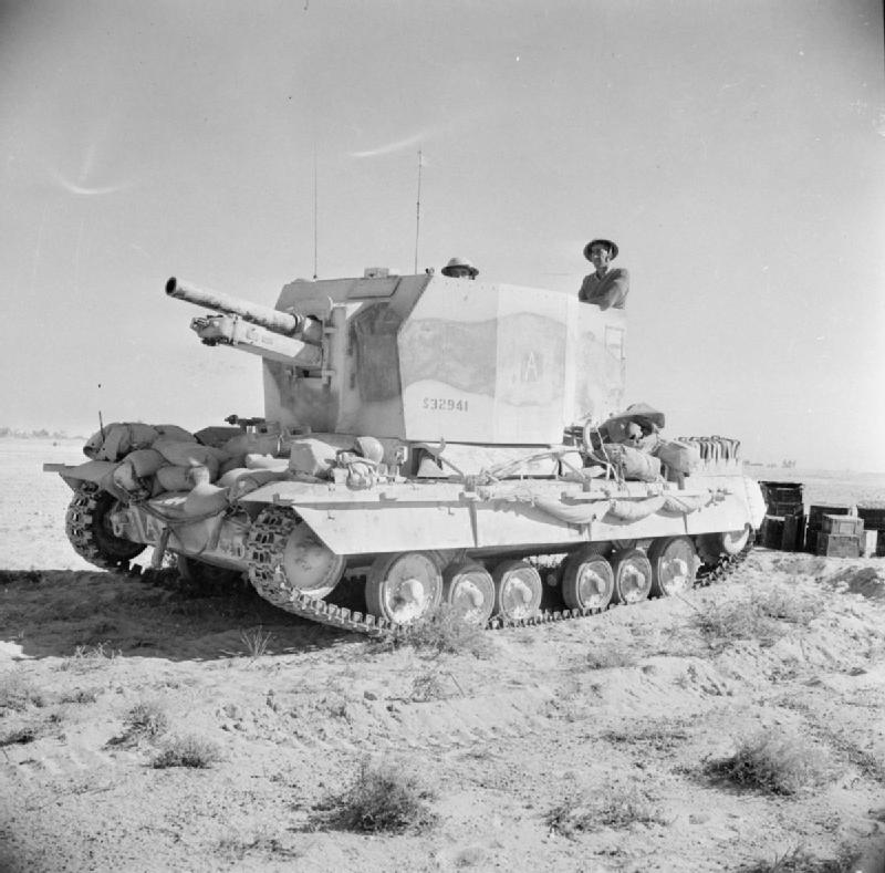 The British Army in North Africa 1942 A Bishop 25-pdr self-propelled gun, 13 November 1942.